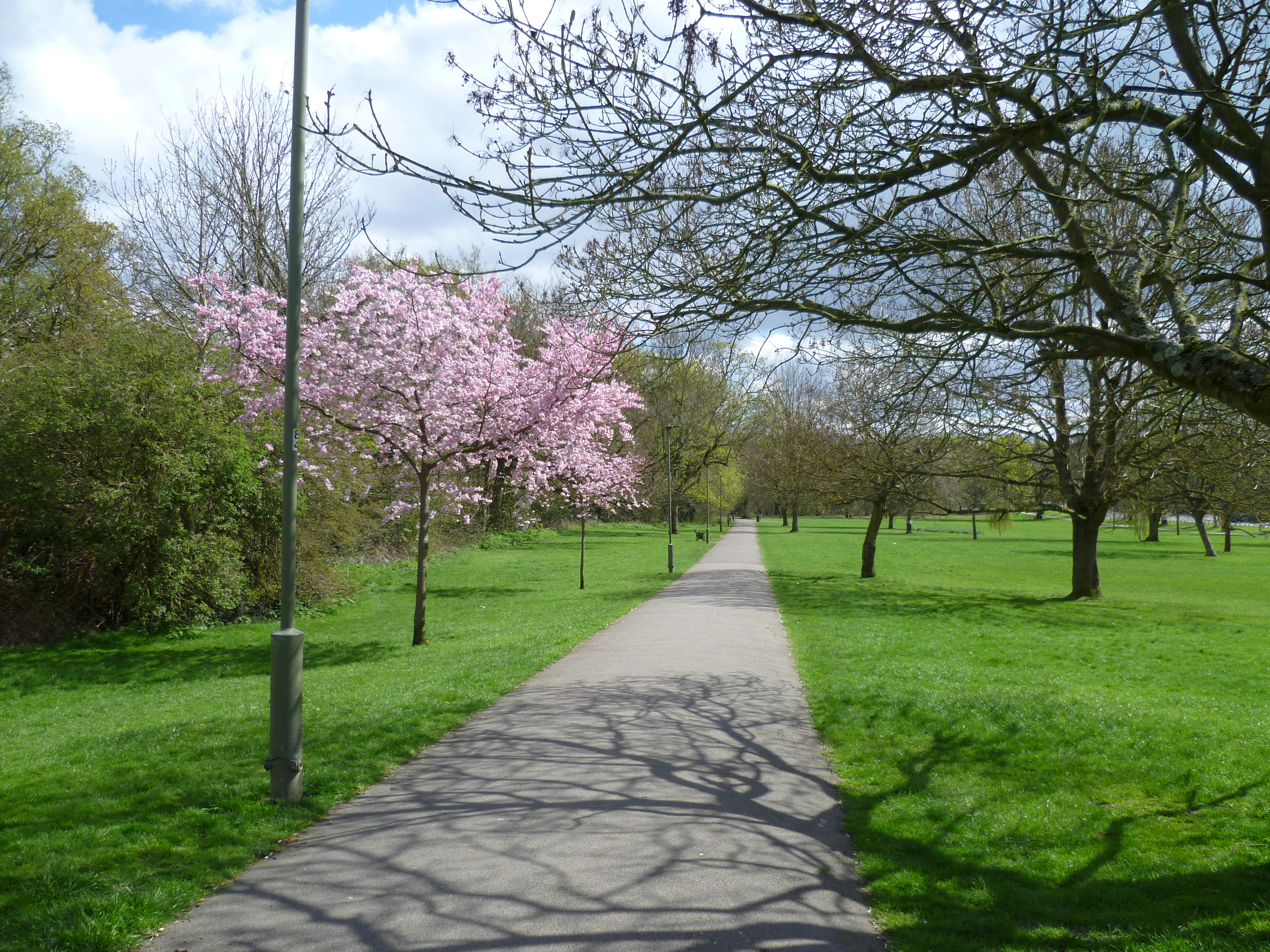 London